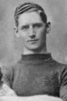 Image of James Allan, the first All Black by playing order